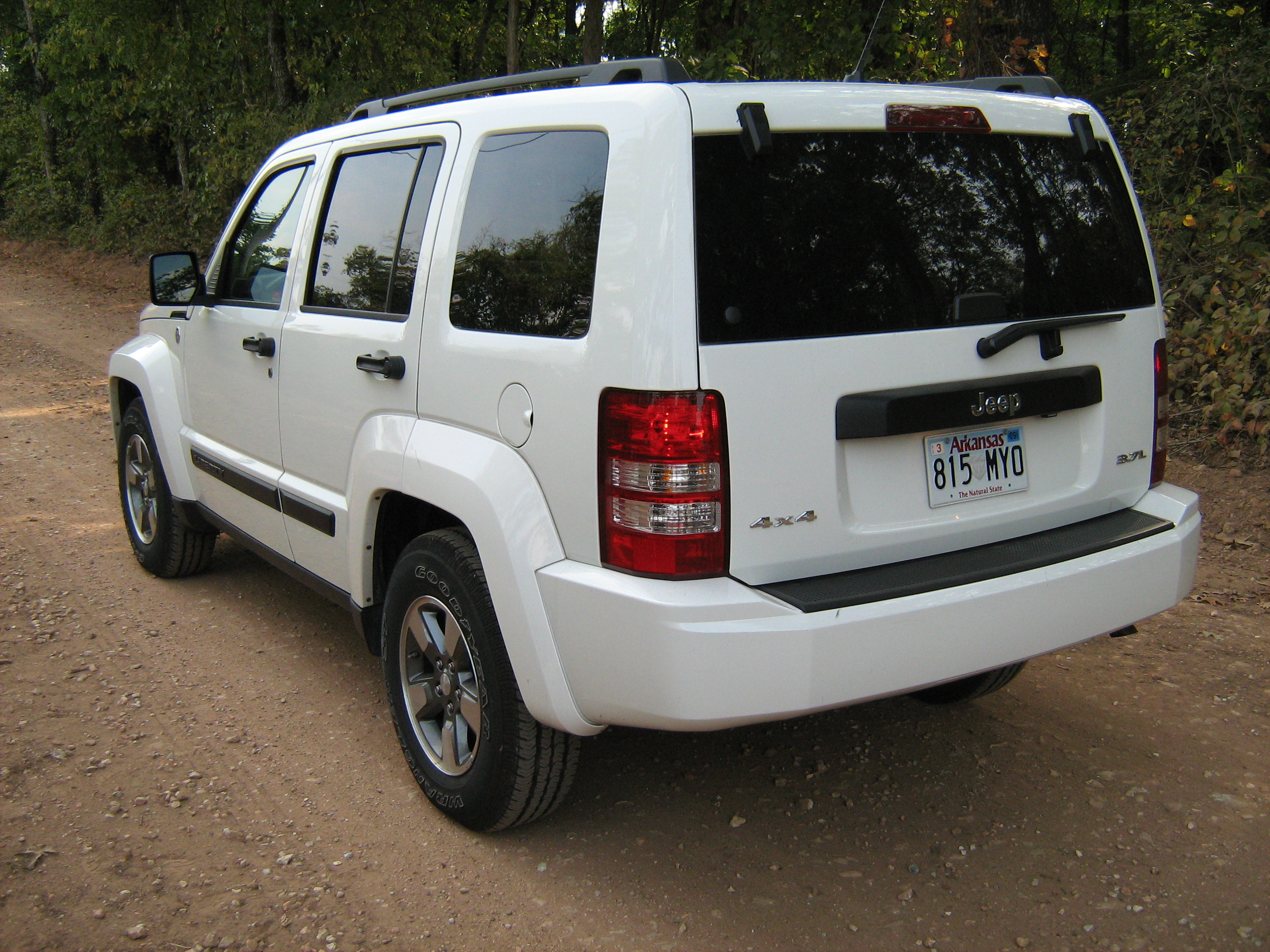 2008 Jeep Liberty (KK) finished in white - rear view